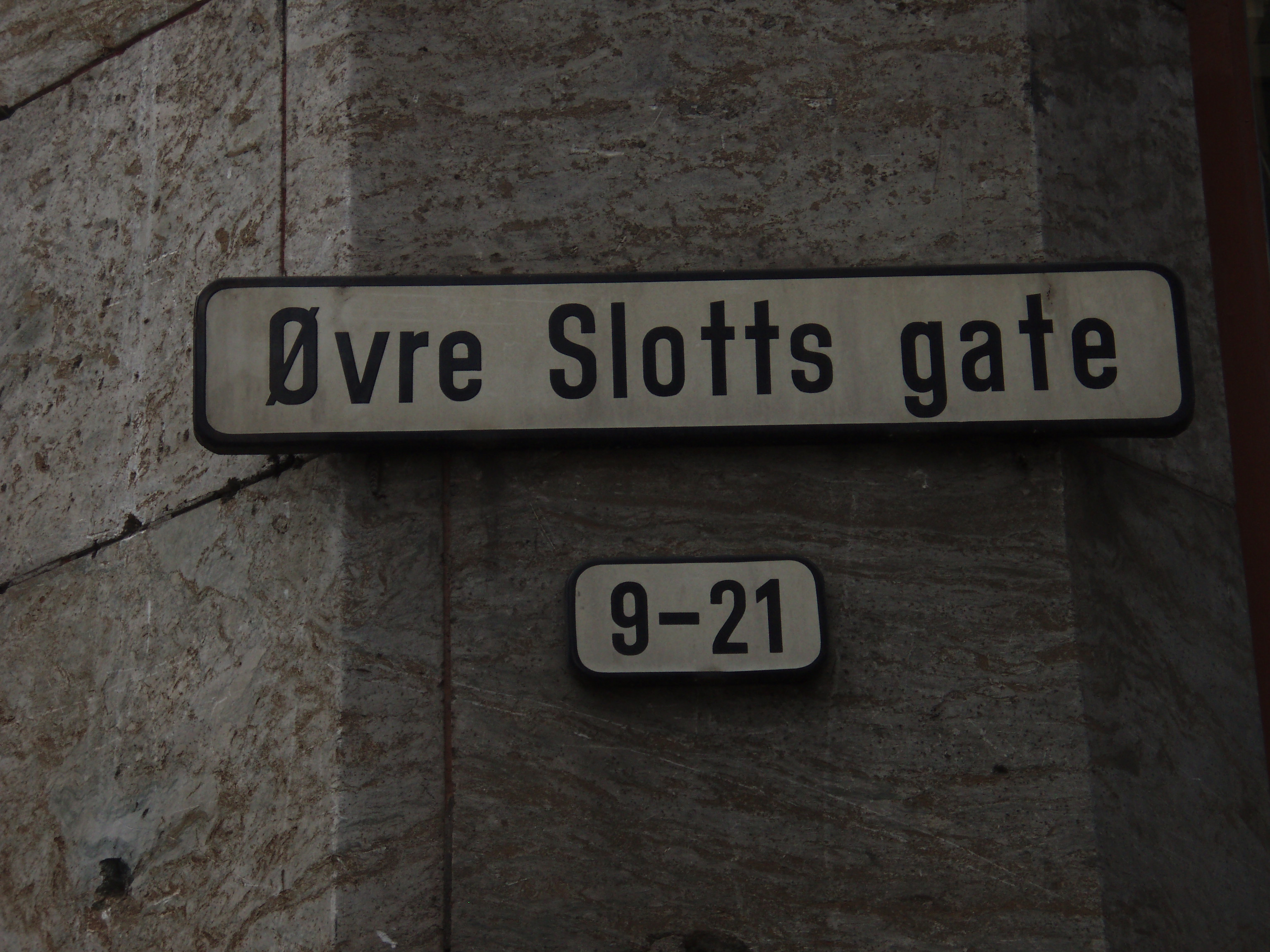 Street sign from Oslo, Norway